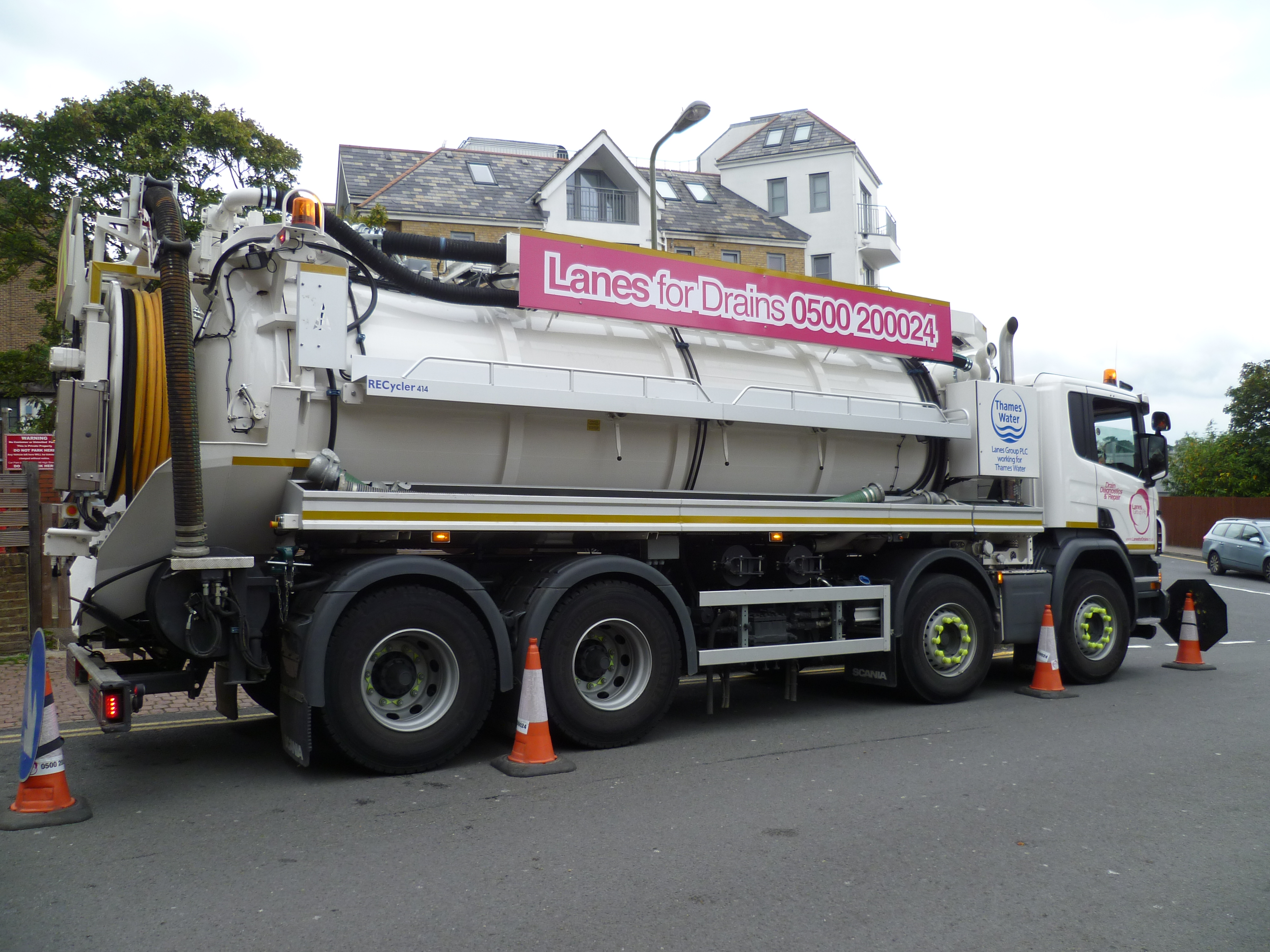 Lanes Group lorry Chipping Barnet